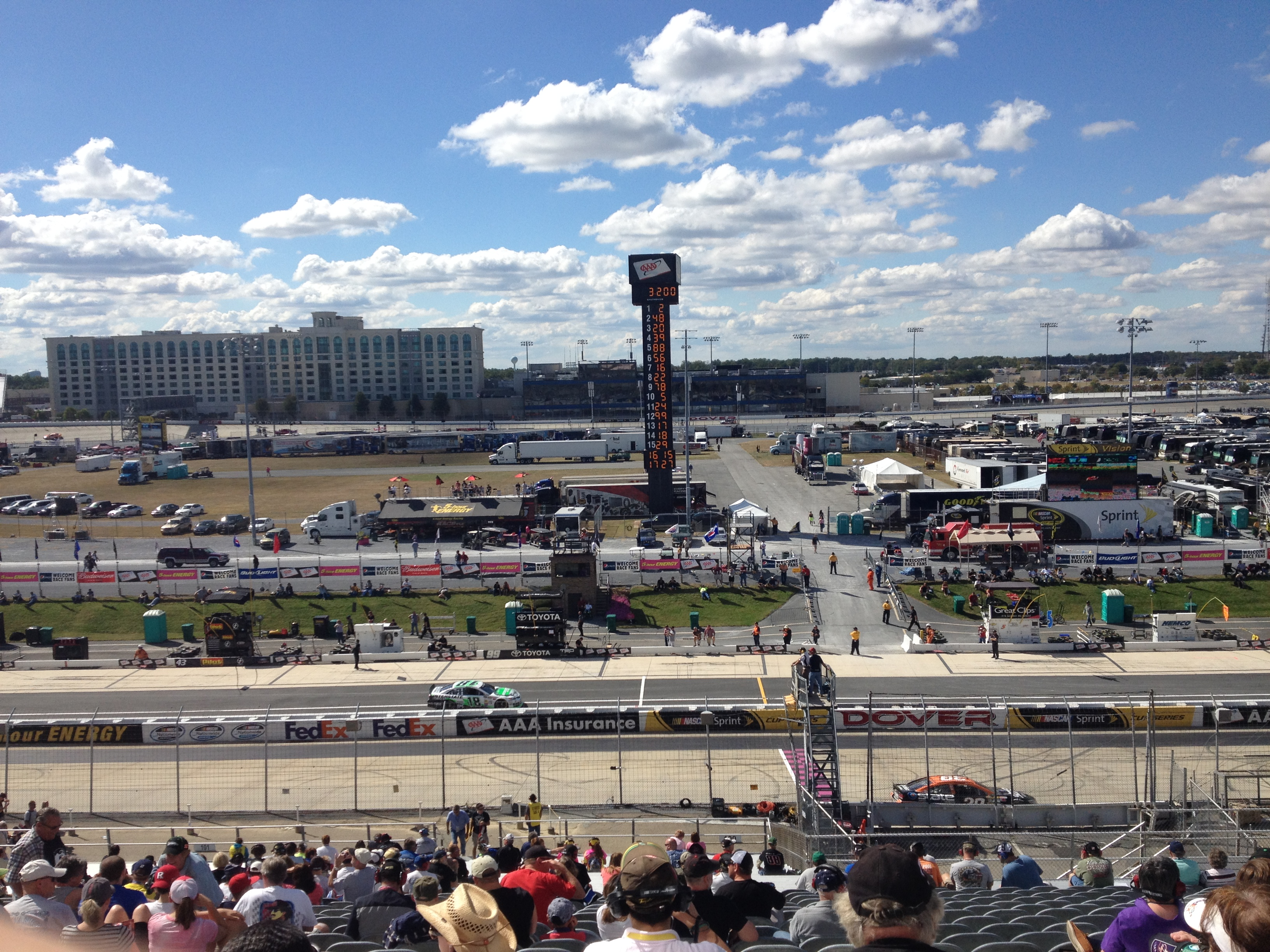 Final practice for the 2013 AAA 400 at Dover International Speedway viewed from the start/finish line. Ryan Newman (#39) is on the track while Kyle Busch (#18) is driving down pit road.